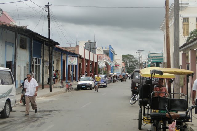 Ciego De Avila